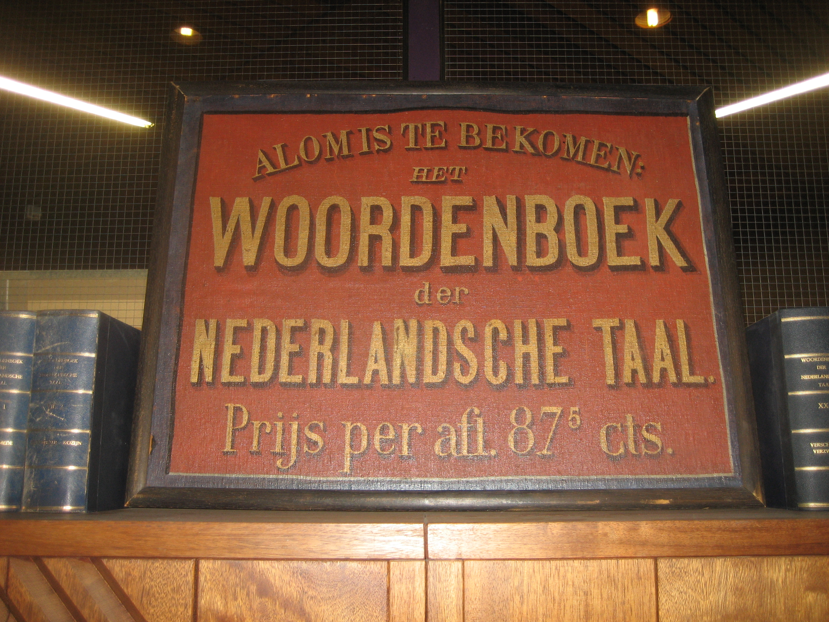 19th century advertisement for Dutch dictionary "Woordenboek der Nederlandsche Taal".